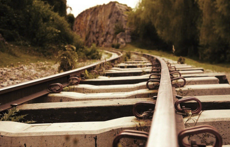 fotografia concurso de dibujo